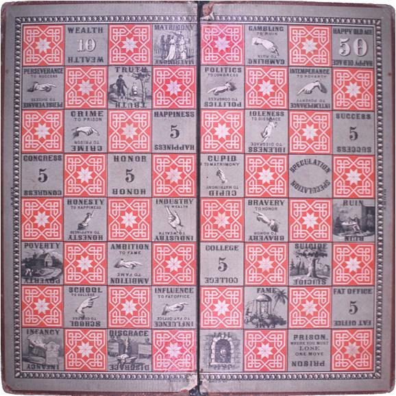 The Checkered Game of Life board